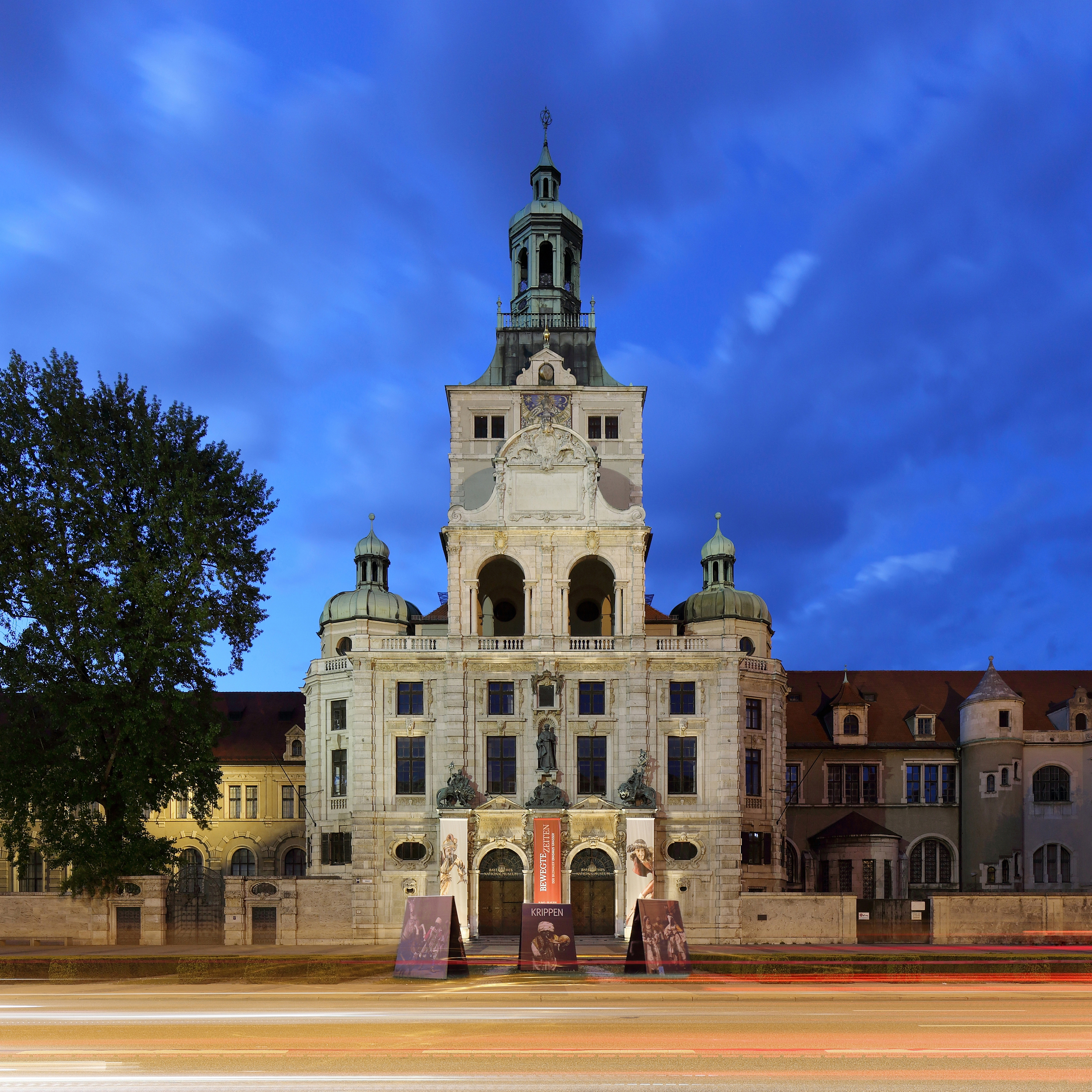 The Bavarian National Museum (Bayerisches Nationalmuseum) in Munich is one of the most important museums of decorative arts in Europe and one of the largest art museums in Germany.